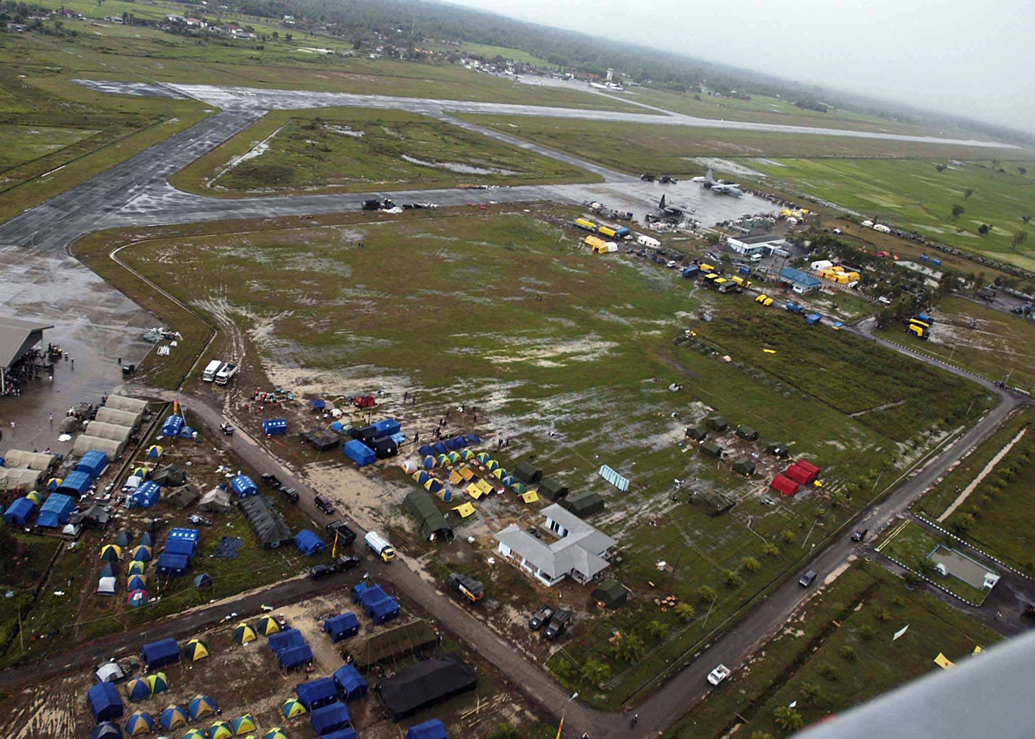 Banda Aceh, Sumatra, Indonesia (Jan. 10, 2005) – An aerial view of Banda Aceh Airport on the island of Sumatra, Indonesia. The airport is the main hub of U.S. Navy helicopter relief operations. Helicopters assigned to Carrier Air Wing Two (CVW-2) and Sailors from Abraham Lincoln are supporting Operation Unified Assistance, the humanitarian operation effort in the wake of the Tsunami that struck South East Asia. The Abraham Lincoln Carrier Strike Group is currently operating in the Indian Ocean off the waters of Indonesia and Thailand. U.S. Navy photo by Photographer's Mate Airman Patrick M. Bonafede (RELEASED)